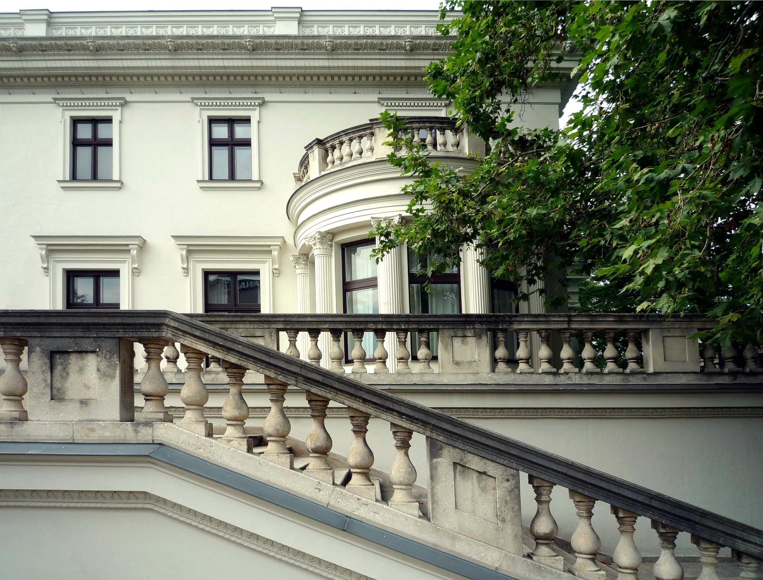 The "Villa von der Heydt" near Landwehrkanal in Berlin. Residence of president and administration of the "Stiftung Preußischer Kulturbesitz" (Foundation of prussian cultural values). The southern facade, partial view.